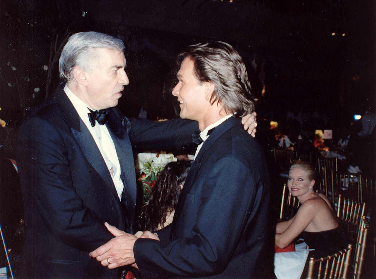 Actors Martin Landau and Patrick Swayze. 61st Academy Awards 3/29/89 - Governor's Ball.